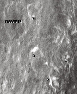 Tisserand lunar crater as seen from Earth with satellite craters labeled